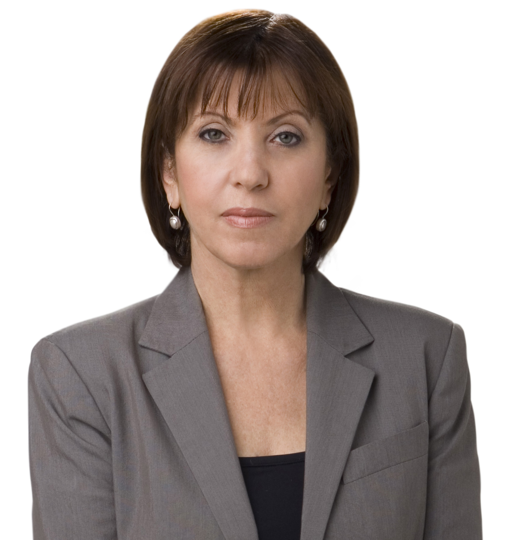 Zahava Gal-On